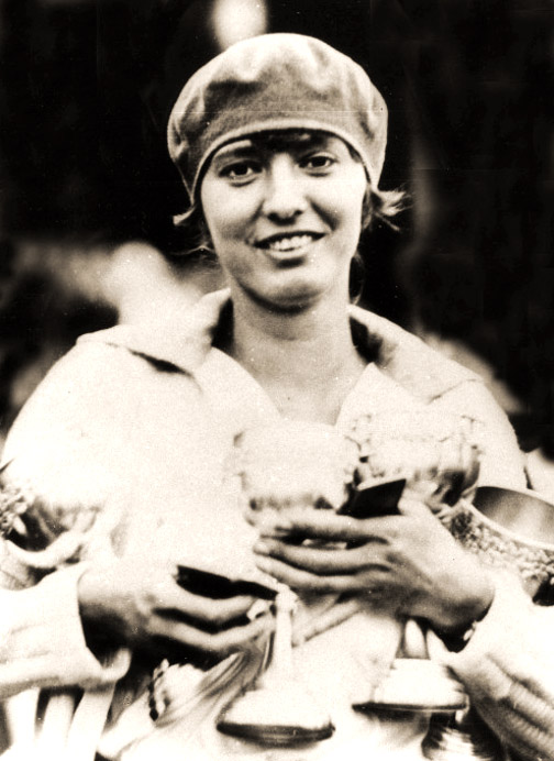 Halina Konopacka, Polish sportswoman, winner of Olimpic games in Amsterdam 1928, later wife of Polish politician and minister Ignacy Matuszewski